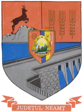 Communist coat of arms of Neamț County, Socialist Republic of Romania.